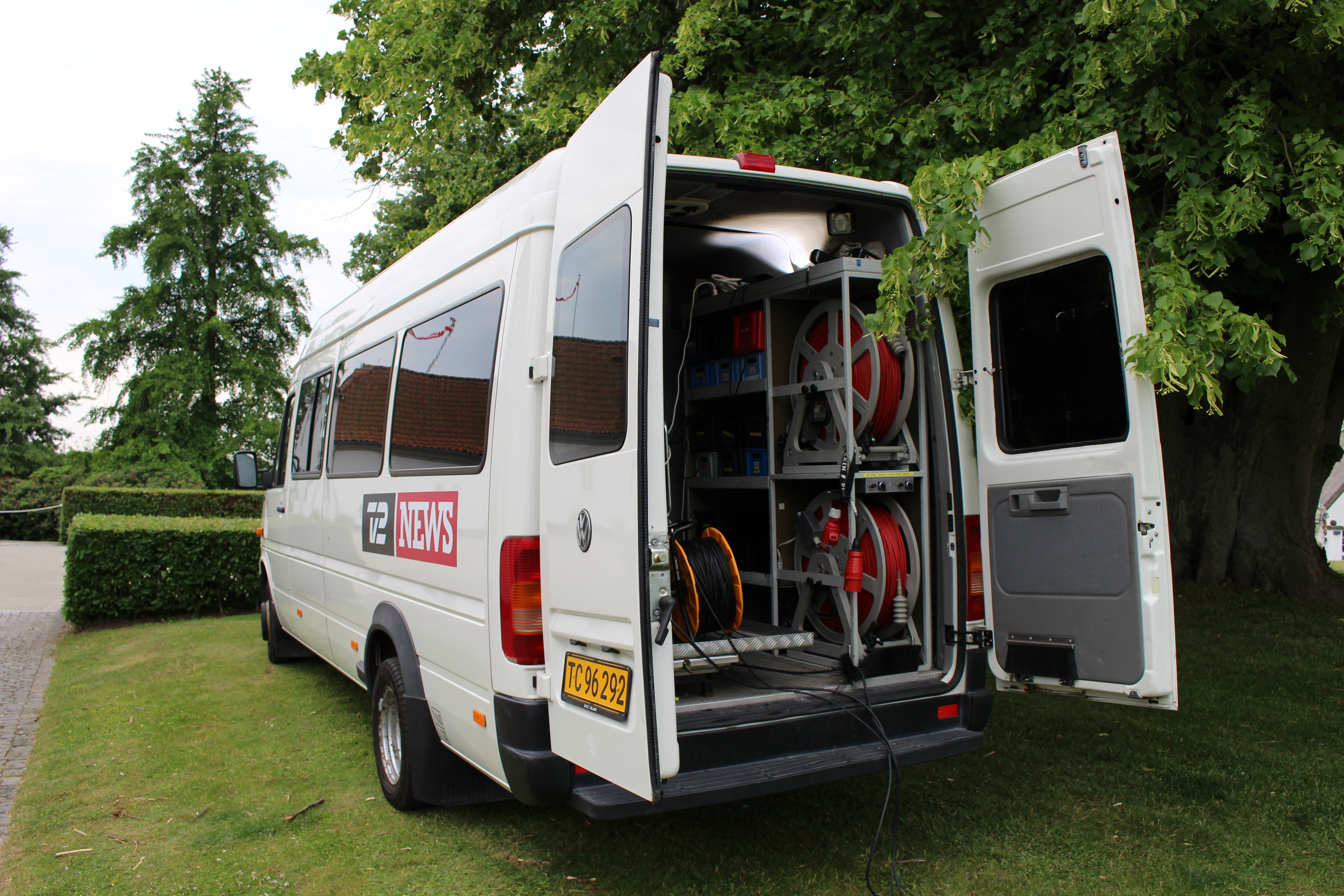 Car with technical equipment from the Danish TV 2 parked at Marienborg for recording or transmitting the midsummer speech by prime minister Lars Løkke Rasmussen.